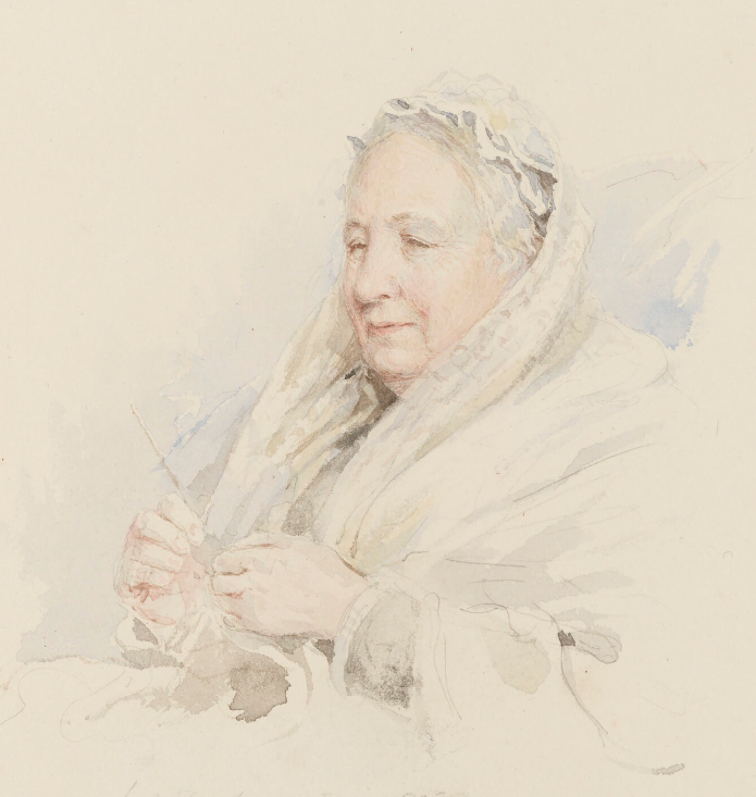 Catherine Marsh born 1818 by Lionel Grimston Fawkes